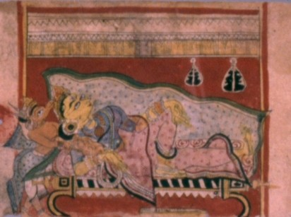 In this composition, the Mahavira is a towering figure who plucks his hair while standing, and the diminutive Sakra gestures like a dancer while seated on a rock. The strangely shaped decorative rock formation rises in successively diminishing waves painted in blue and white with red outlines along the border. Noteworthy is the use of red rather than ultramarine blue for the background and the complete absence of gold. The second page depicts the birth of Mahavira watched over by the goat-headed yaksha Naigamesha. He had been selected by Sakra to switch embryos and make certain that the future Jina would emerge from the appropriate womb. Here again, the artist has departed from convention by including the god Harinaigamesha instead of the usual maid or midwife, who usually stands in front. Harinaigamesha, a protective deity of childbirth, is clearly playing out his role here by standing behind the mother, who holds the newborn in her arms. Other fresh details are the designs of the bed and the use of black pots rather than lamps below the curtain, which now runs along the entire width of the composition. Noteworthy as well are the larger size and more oblong shape of the panel, anticipating the format of later illustrations in manuscripts of similar subjects, and the varied tones of blue and pink. Indeed, the greater freedom of expression and absence of decorative excess make these two illustrations quite different from the more conventional mode encountered in other "Kalpasutra" illustrations.